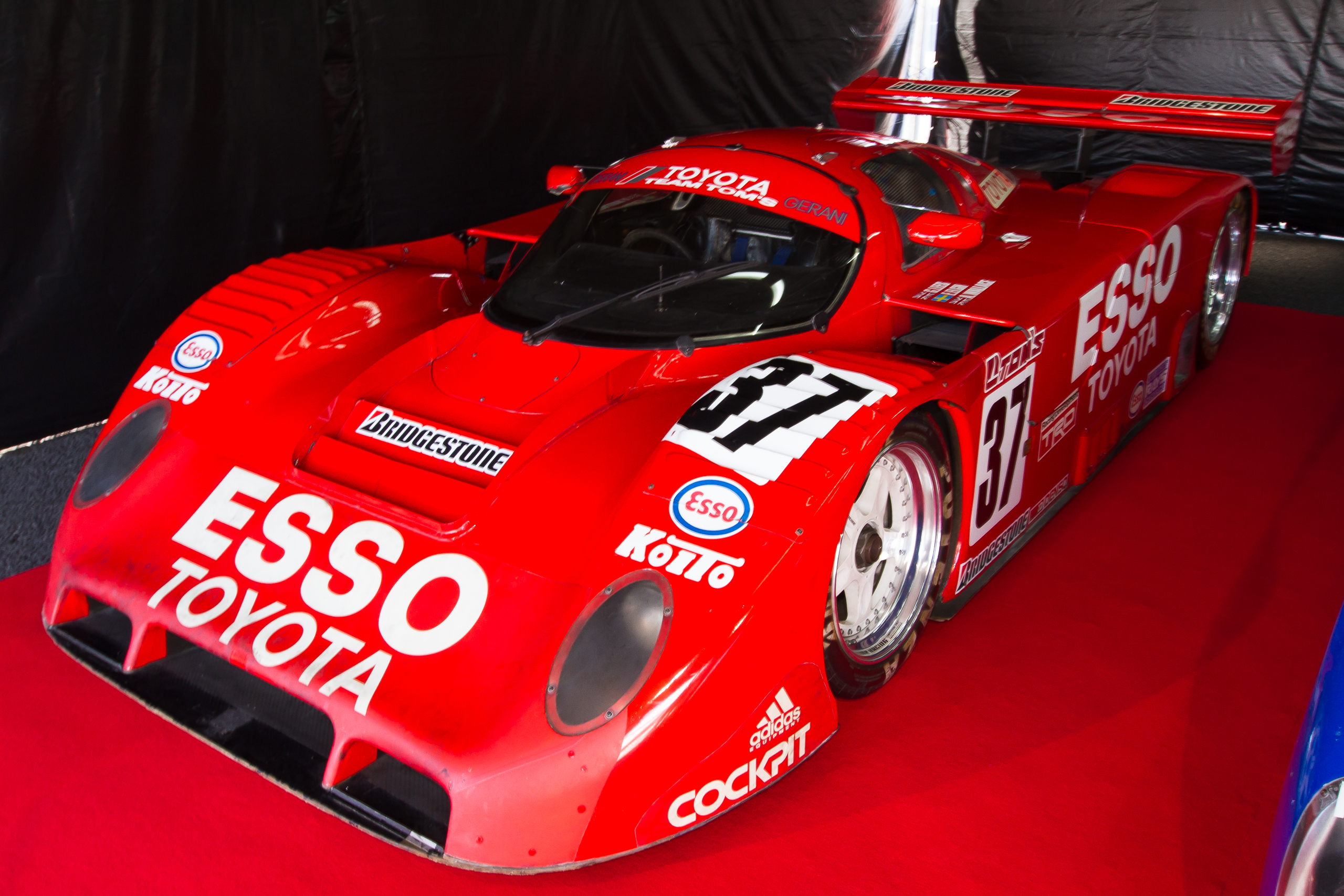 FIA World Endurance Championship 2012 Rd.7 6 Hours of Fuji: Esso Toyota 91C-V.